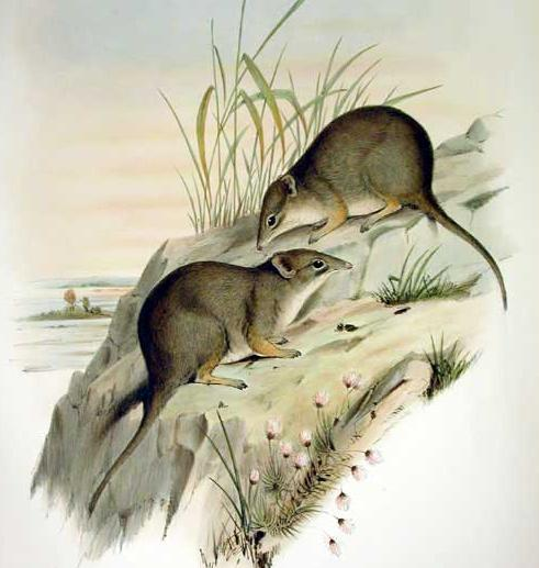 Parantechinus apicalis (orig. Antechinus apicalis)